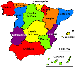 The "historic regions" of Spain, mentioned in the royal decree that declared the 1833 territorial division of Spain. These were superseded by the establishment of the autonomous communities of Spain during the Spanish transition to democracy.